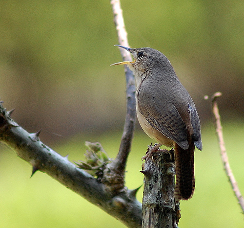 Southern House Wren, Troglodytes (aedon) musculus, in São Paulo Botanic Garden, Brazil.